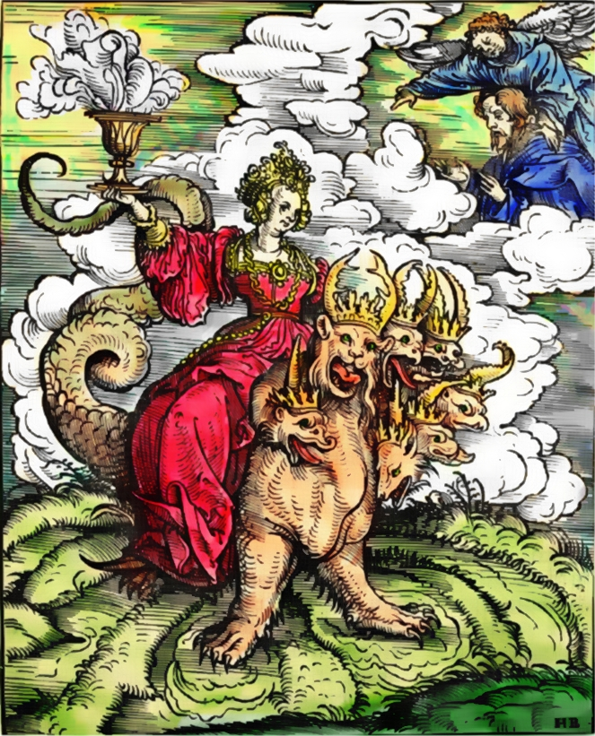 Hans Burgkmair the Elder "The Whore of Babylon; sitting on the seven-headed beast, St John and the angel looking on from a cloud in top right corner. From a series of 21 woodcuts of the Apocalypse for Martin Luther's translation of the New Testament (Augsburg: S. Otmar, 1523). 1523 Woodcut" Colored by user:Shakko